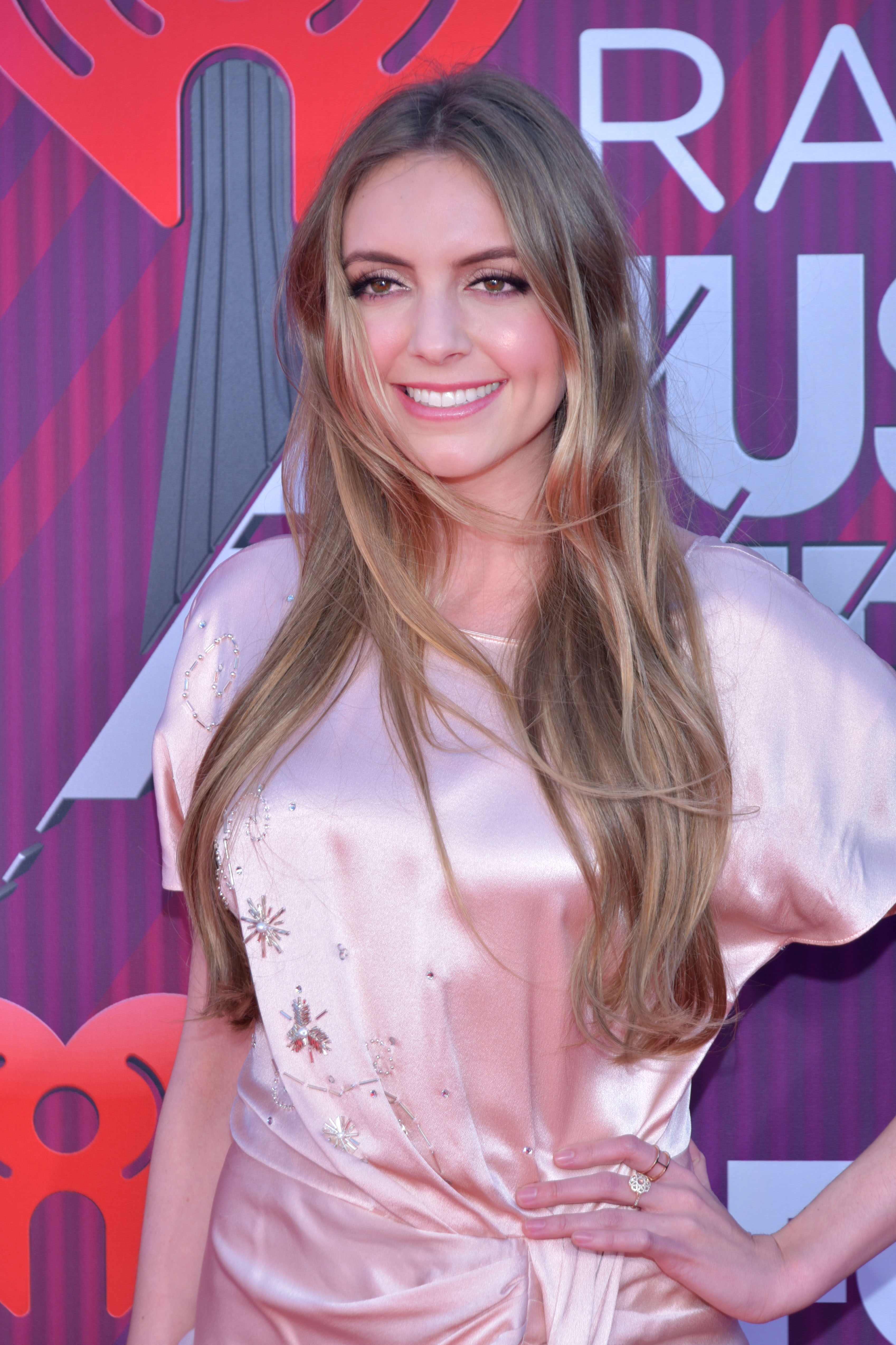 LIVVIA (Olivia Somerlyn) at the 2019 iHeartRadio Music Awards in Los Angeles California - Photo by Glenn Francis of